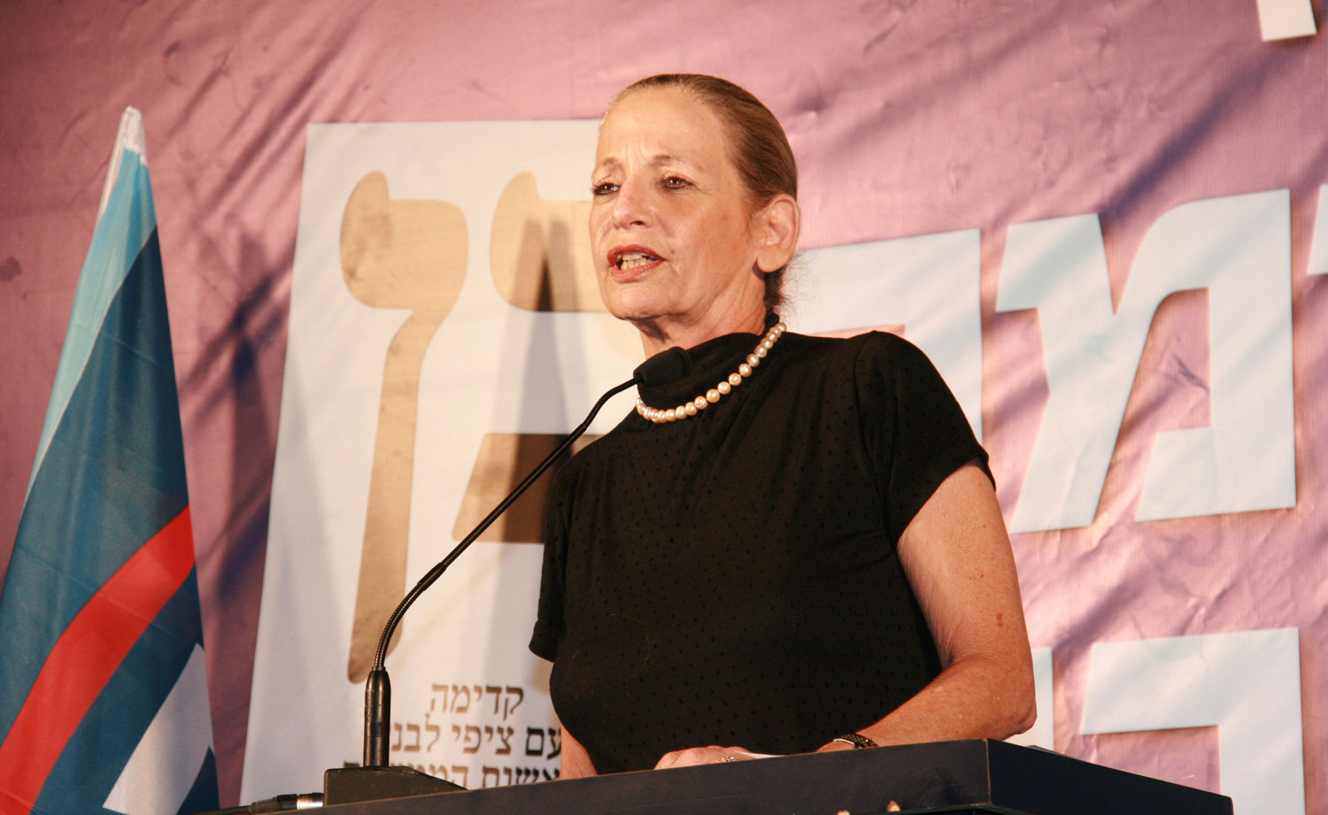 MK Rachel_Adato, Member of Kadima Party (Israel). Photo by: Itzik Edri, Kadima Party PR Team